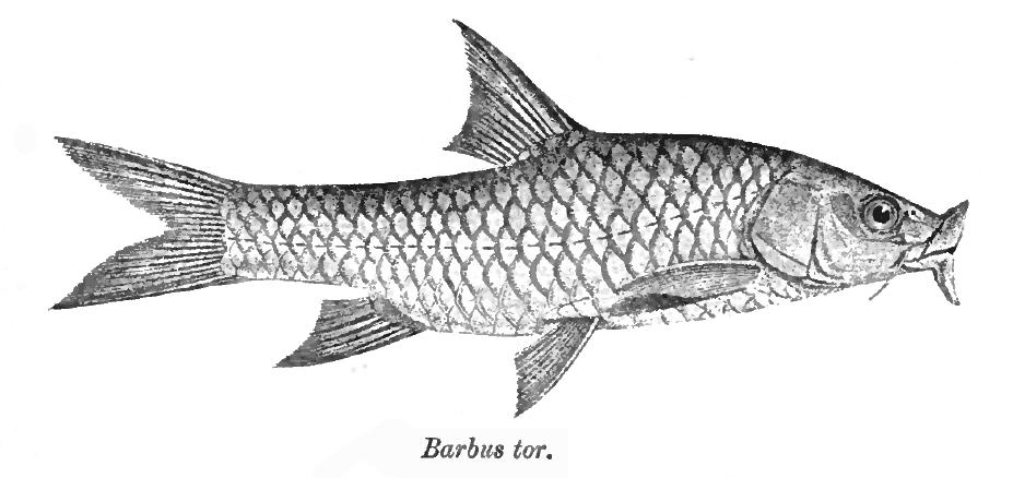 Barbus tor = Tor tor (Hamilton, 1822)